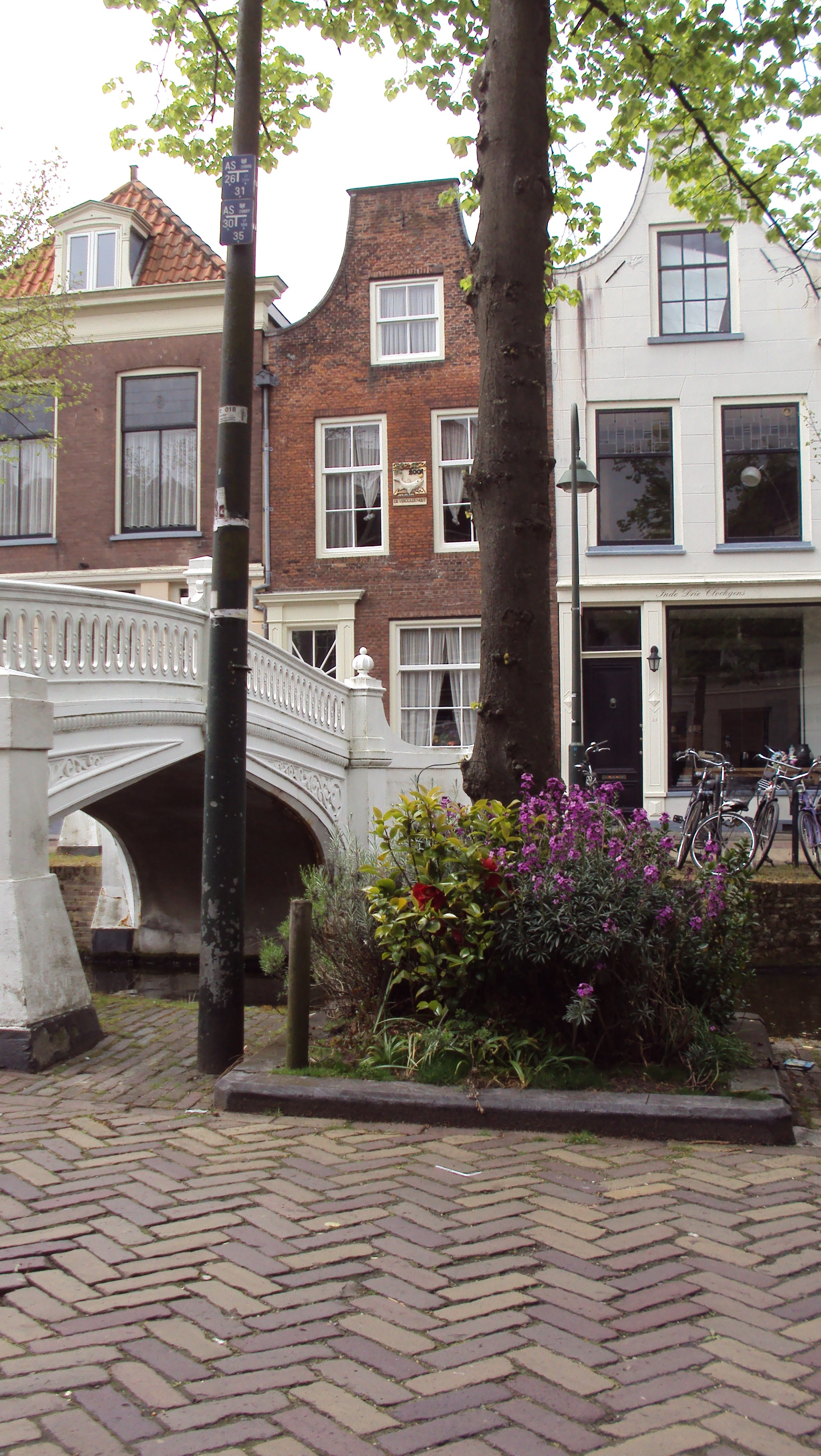 Tree base used for small plants.